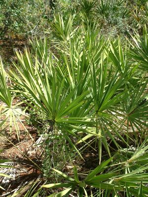 Saw Palmetto at Turkey Creek, Palm Bay, Florida.